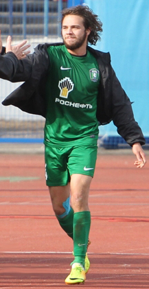 Yevgeni Bashkirov with FC Tom Tomsk